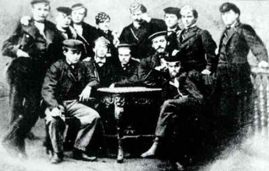 Founding of Landsmannschafter Convent